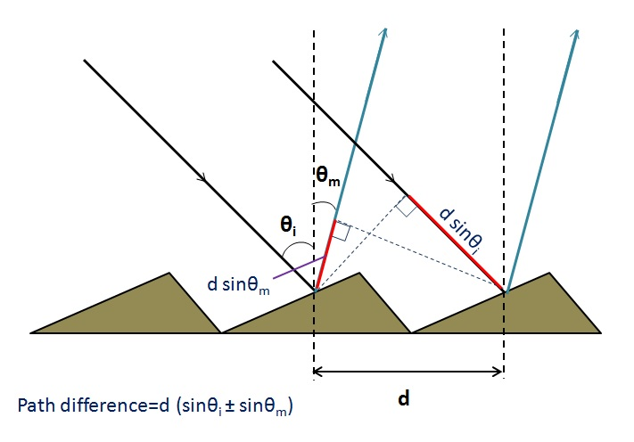 Diffraction Grating Equation. Inspired from by Karen B. Kwitter.